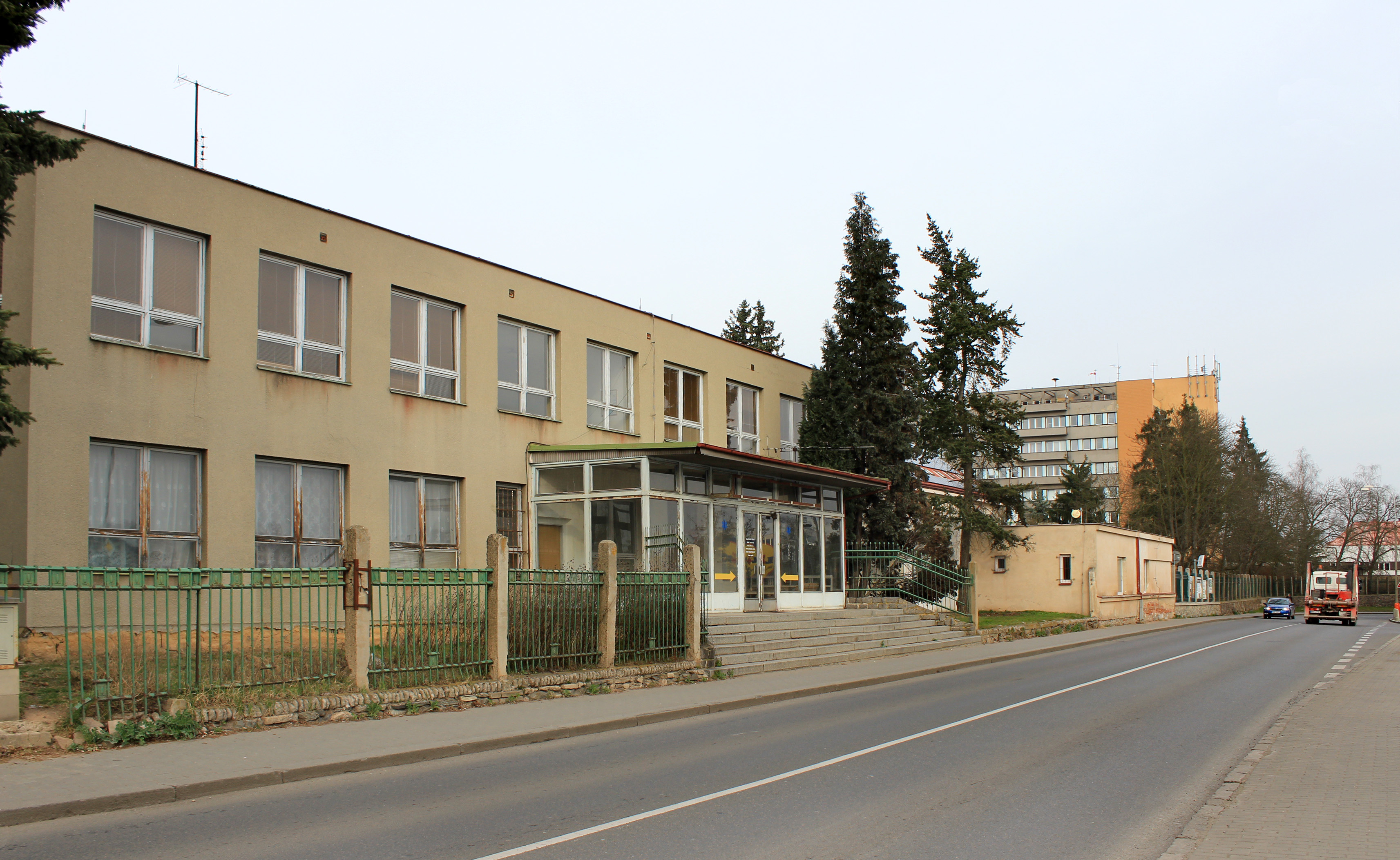 Masaryk hospital in Rakovník, Czech Republic.